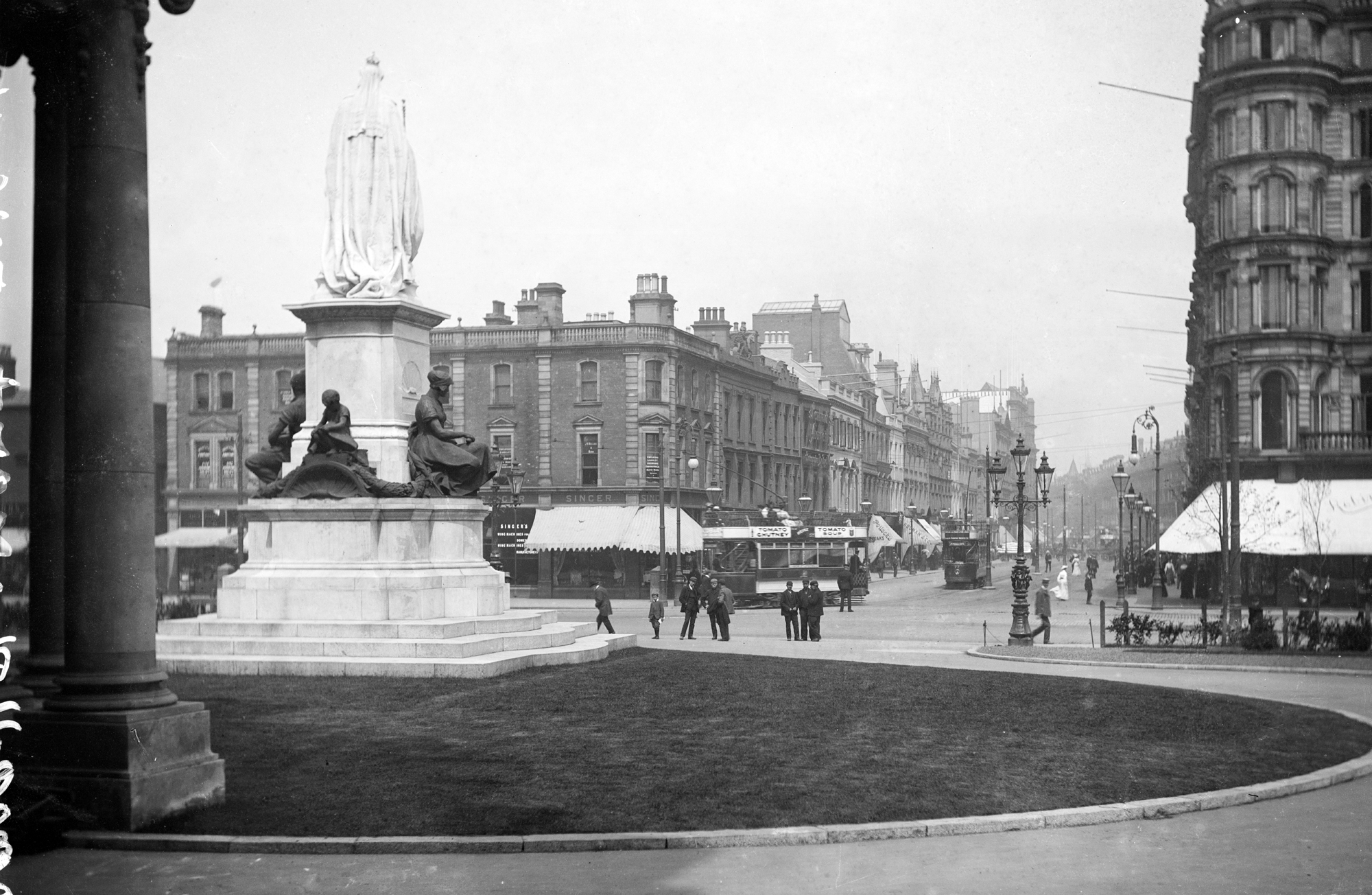 This photo had been languishing on our catalogue with the sad title Unidentified - an unacceptable state of affairs, but our fantastic Flickroonies have rectified the situation... Thanks to Niall McAuley for identifying this location as City Hall at Donegall Square North, Belfast in record time and providing us this link that says that City Hall was completed in 1906 - giving us an earliest possible date for this photo! Nice history of Robinson and Cleaver Department Store in from [ Vab2009 - that's the building at right of the photo. Thanks also to Cuddly Nutter] for this information on the statue of Queen Victoria: "The main sculpture outside the entrance was created by the sculptor Sir Thomas Brock RA to celebrate Queen Victoria’s Jubilee. Carved from Sicilian marble the eleven foot sculpture depicts the Queen as the regal ruler of the Empire; around the lower facades are beautiful bronze figures representing the shipbuilding and linen industries, another of a child facing city hall represents education. The sculpture was unveiled by King Edward VII in July 1903." And great work on dating from all quarters. Consensus from evidence gathered is succinctly put by Gerry Ward: "This is most definitely between 05 Dec 1905 - the date of the electrification of the Belfast Tramway system and the date in 1907 when Stevenson’s building for Steen & Milliken was completed. There is a reference to this building in the 04 May 1907 edition of Irish Builder, page 49, maybe Carol could access a copy in Library Towers to see whether it was finished at that time." Did indeed check the Irish Builder, and Steen & Milliken's building was still under construction in April 1907 (from issue dated 4 May 1907). I think we can assume April 1907, given the length of time taken to put a publication together... Date: Between December 1905 and April 1907 NLI Ref.: L_CAB_04202